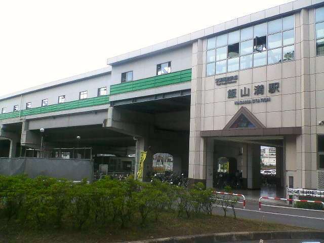 Photo of Hasama Station (飯山満駅). Chabudai photograph at July 12 2006.